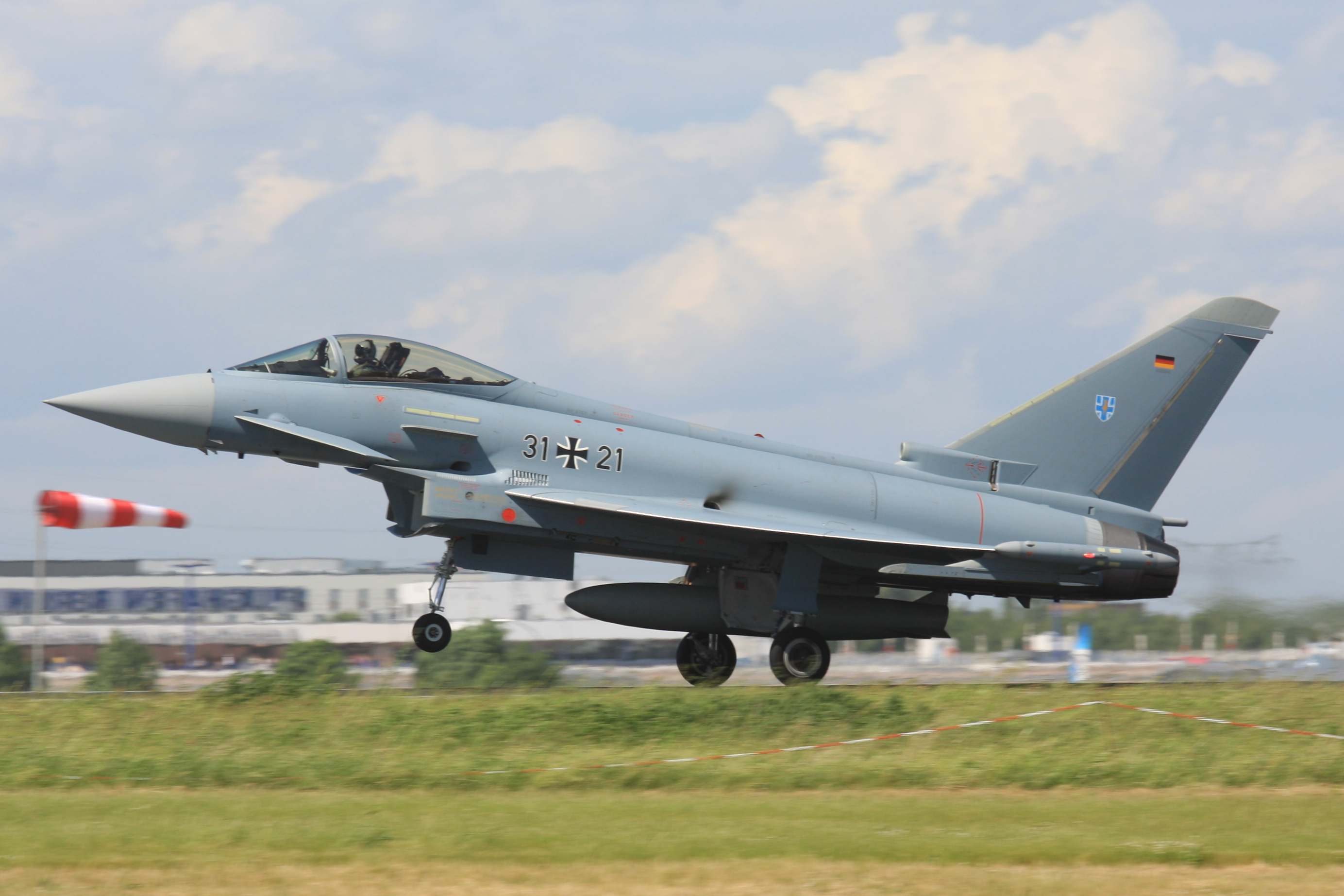 Eurofighter of the German Luftwaffe at Berlin Schönefeld Airport (picture taken during the International Air and Space Exhbition).